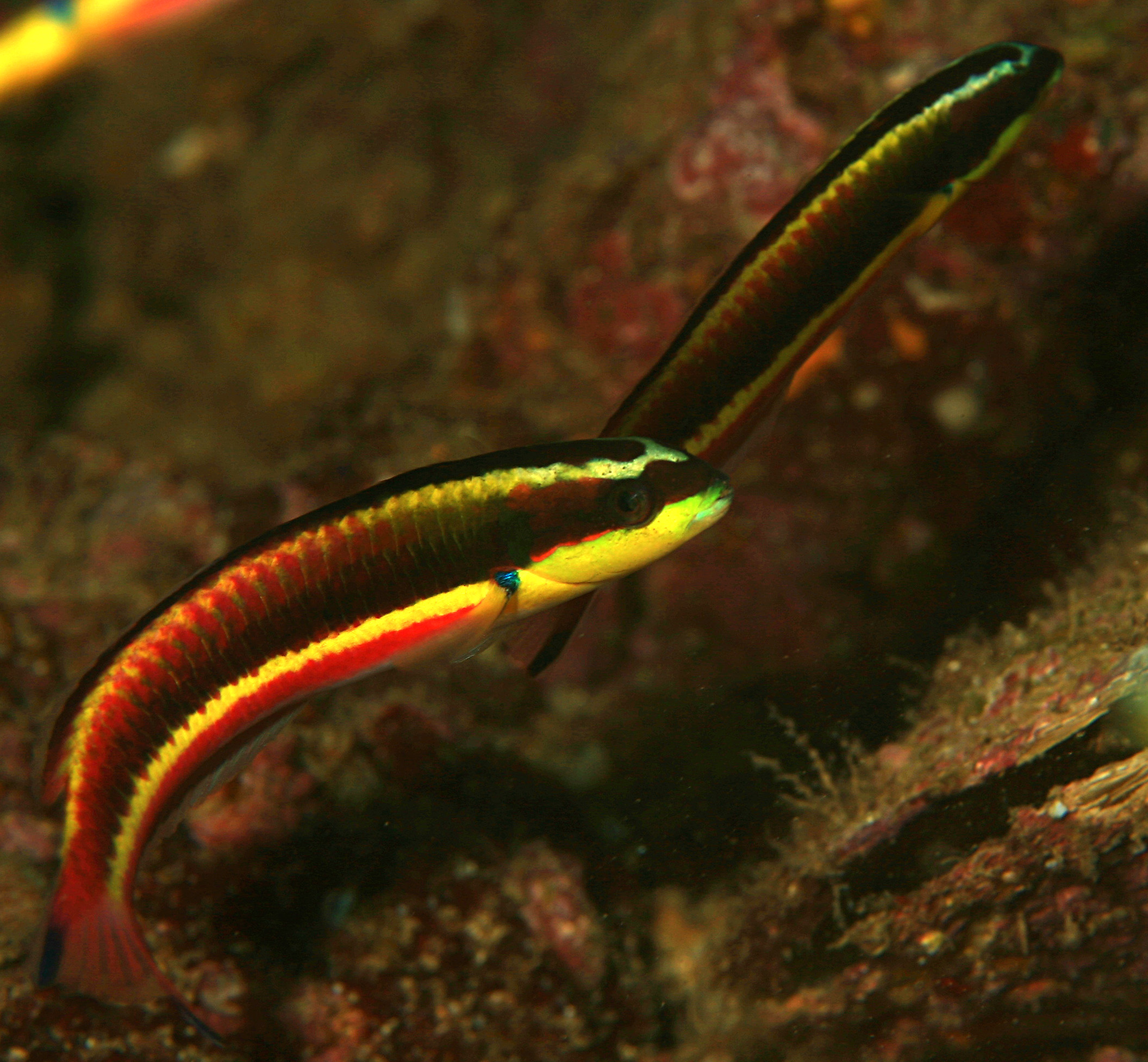 Cortez Rainbow Wrasse (Thalassoma lucasanum) Isla Coiba, Panama